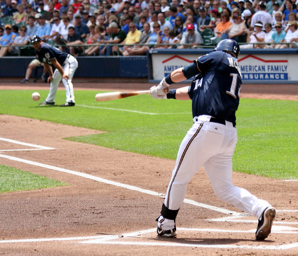 Casey McGehee for the Milwaukee Brewers puts a ball in play. ; move approved by User:Foroa